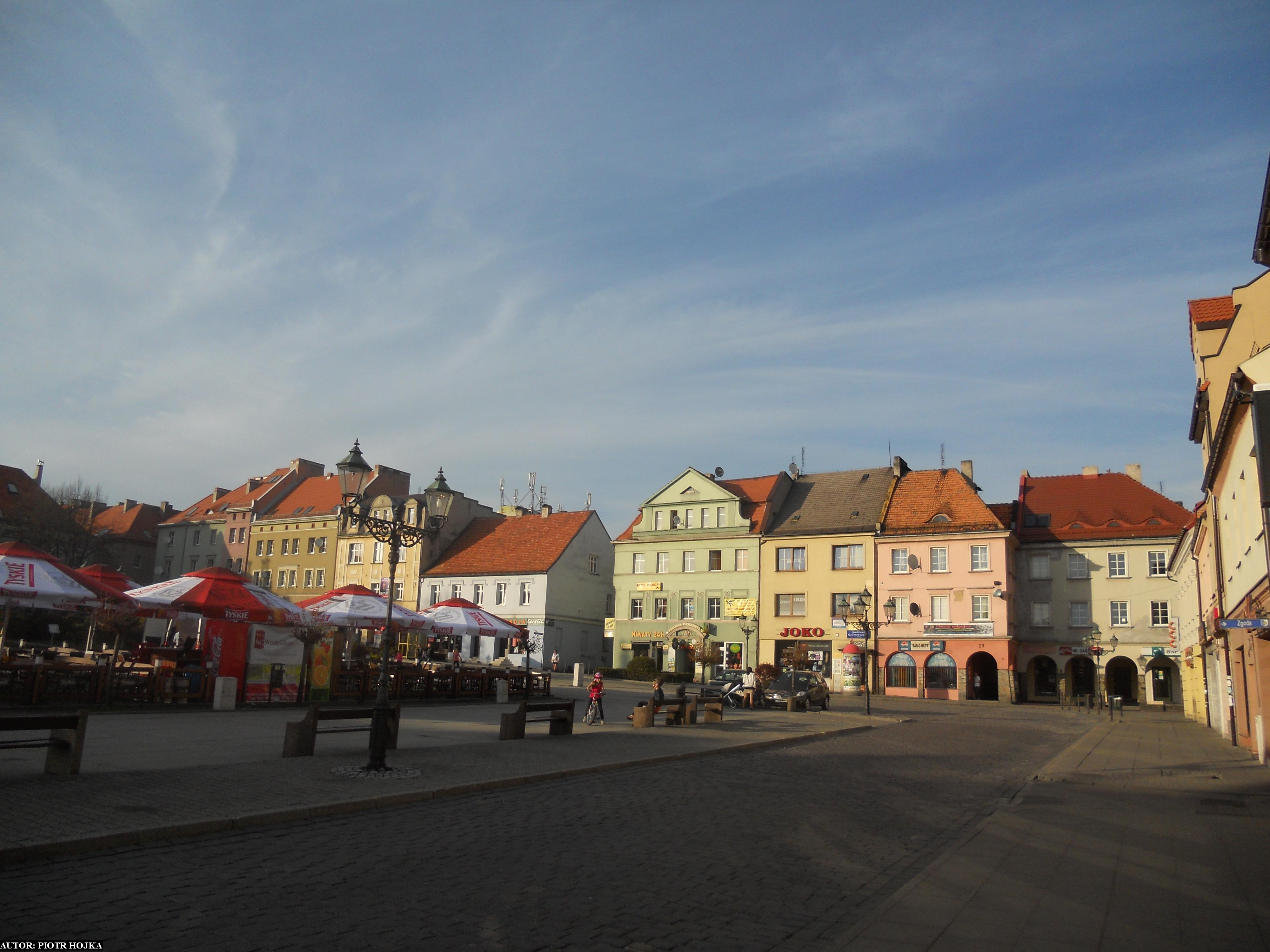 Wodzisław Śląski Old Town Square, the eastern part, april 2012.